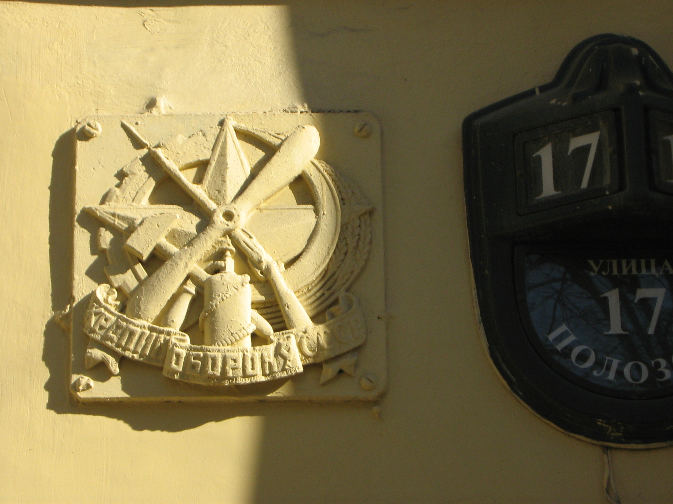 17, Polozova Street (Saint Petersburg). Detail.